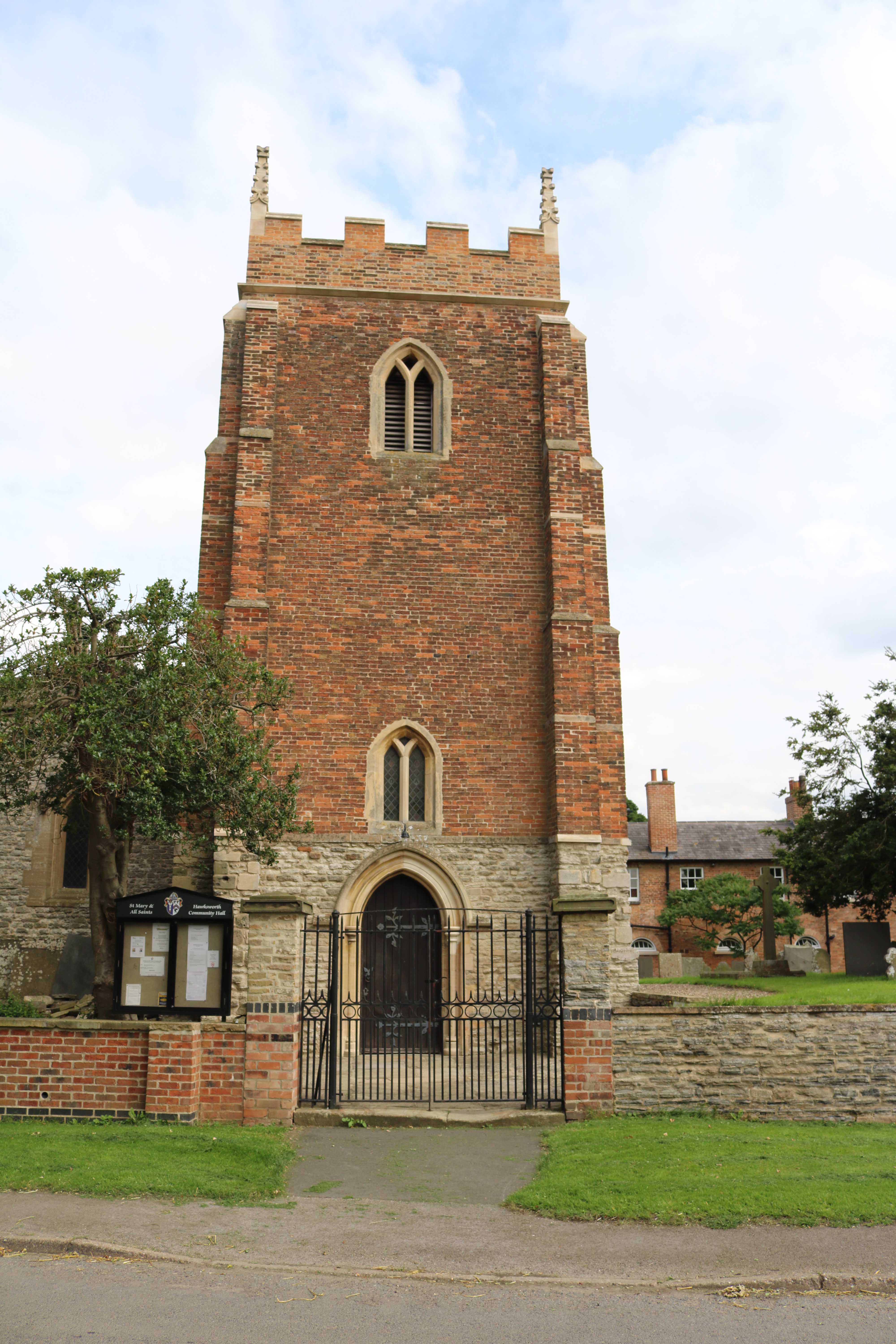 Parish church of St Mary and All Saints, Hawksworth, Nottinghamshire, seen from west-northwest